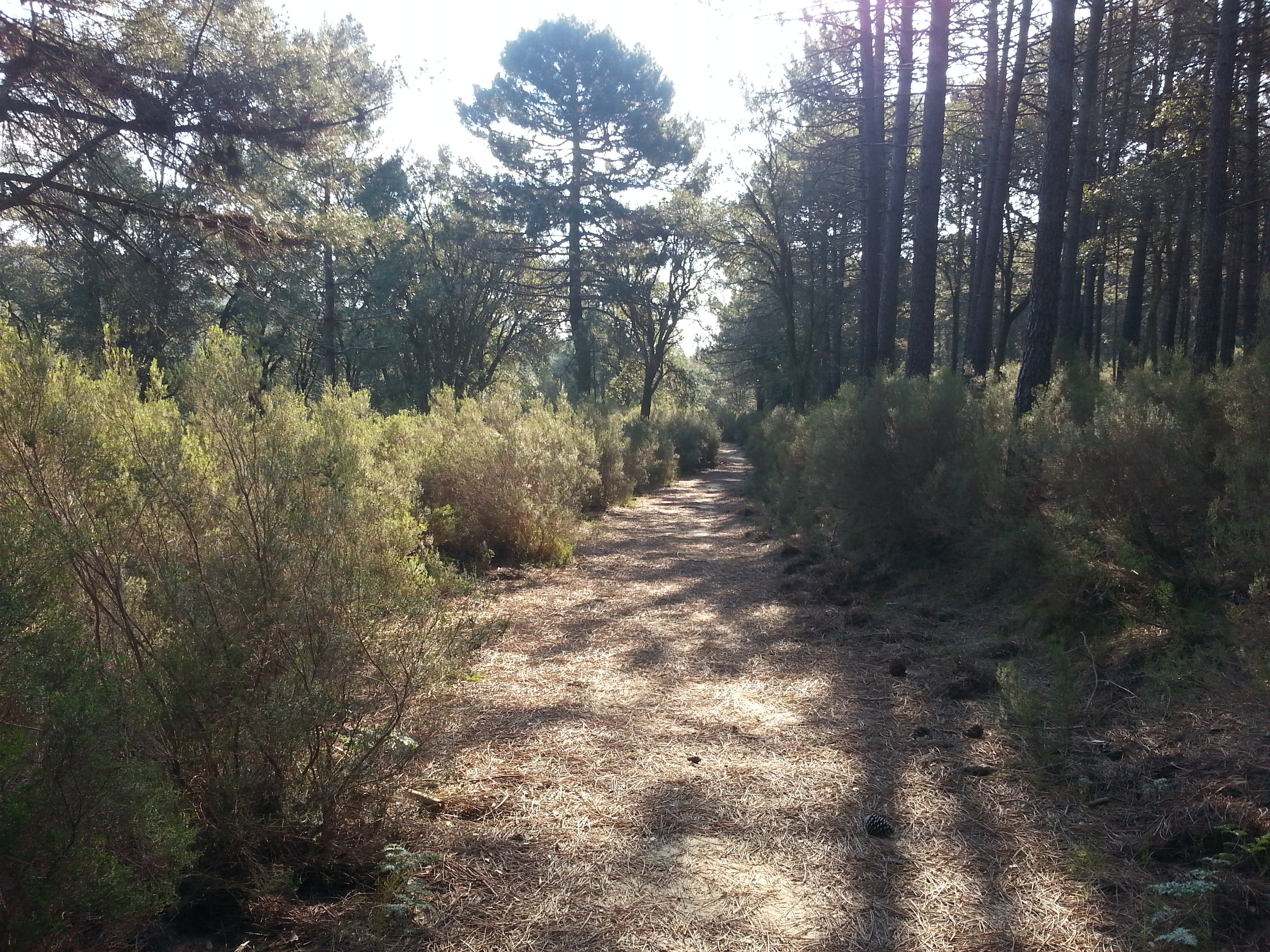 Track through Pla de Junquera 6, El Surar, Pinet, Valencia